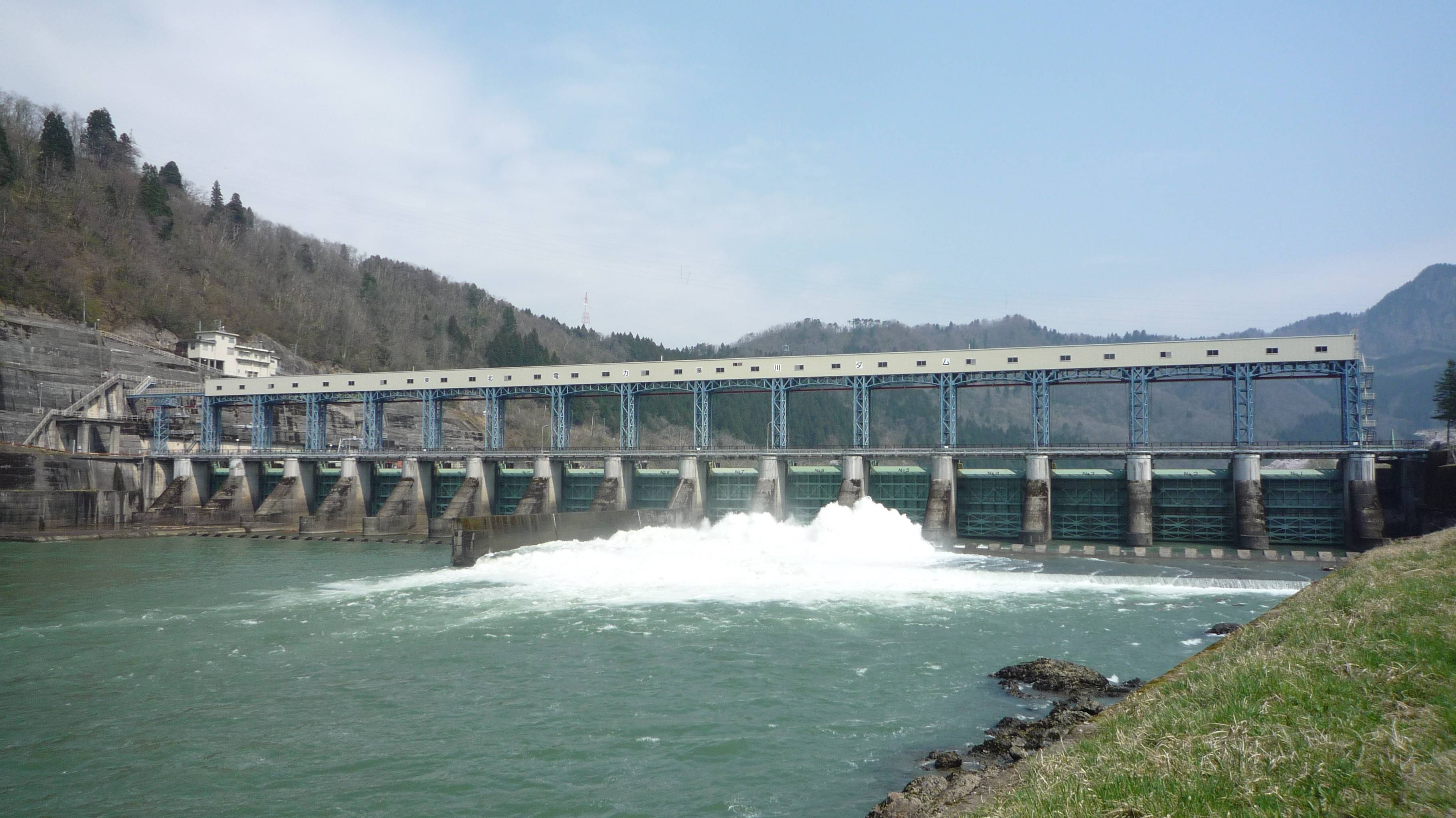 Agekawa Dam.